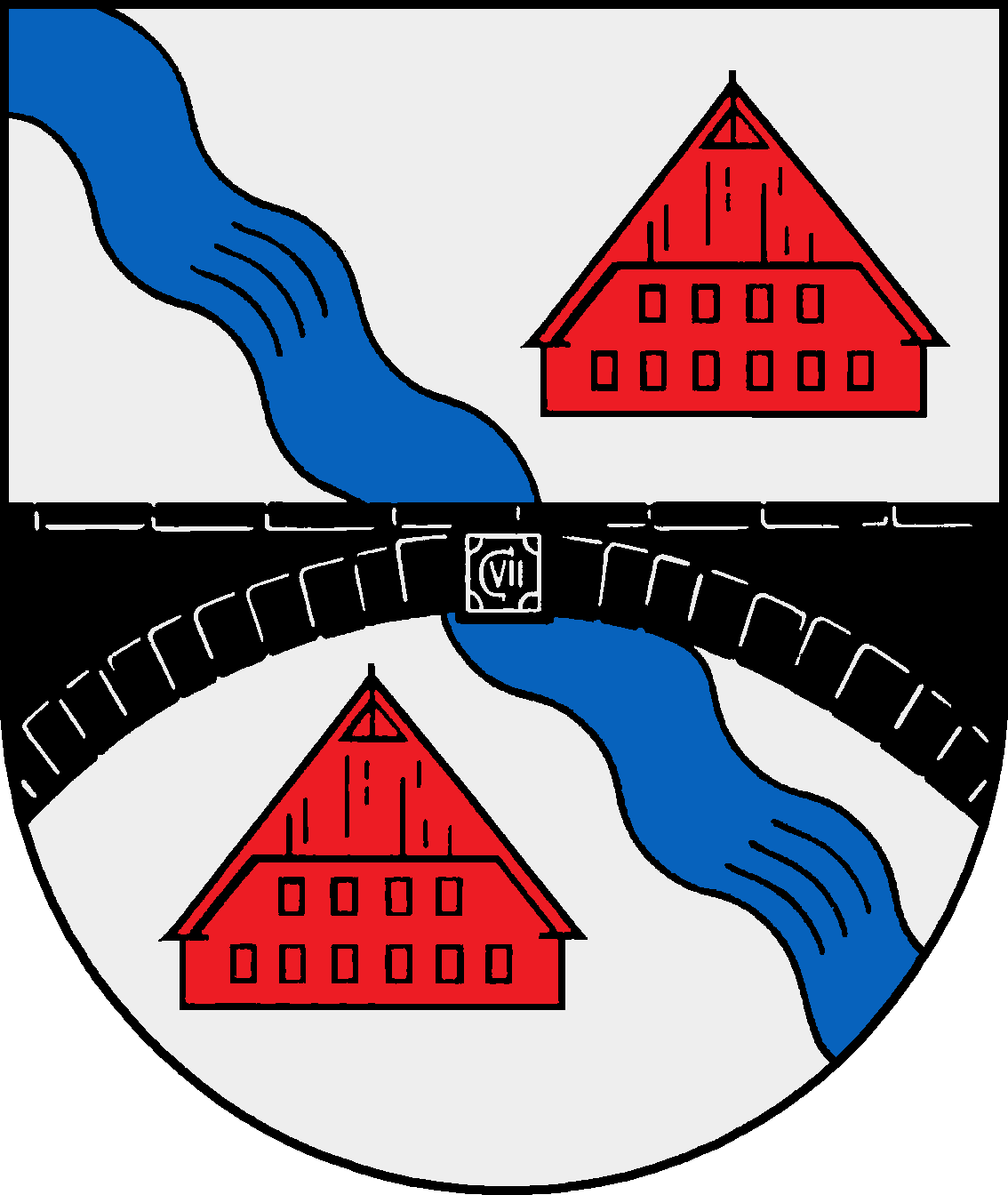 Coat of arms of the municipality Neritz in Schleswig-Holstein, Germany.